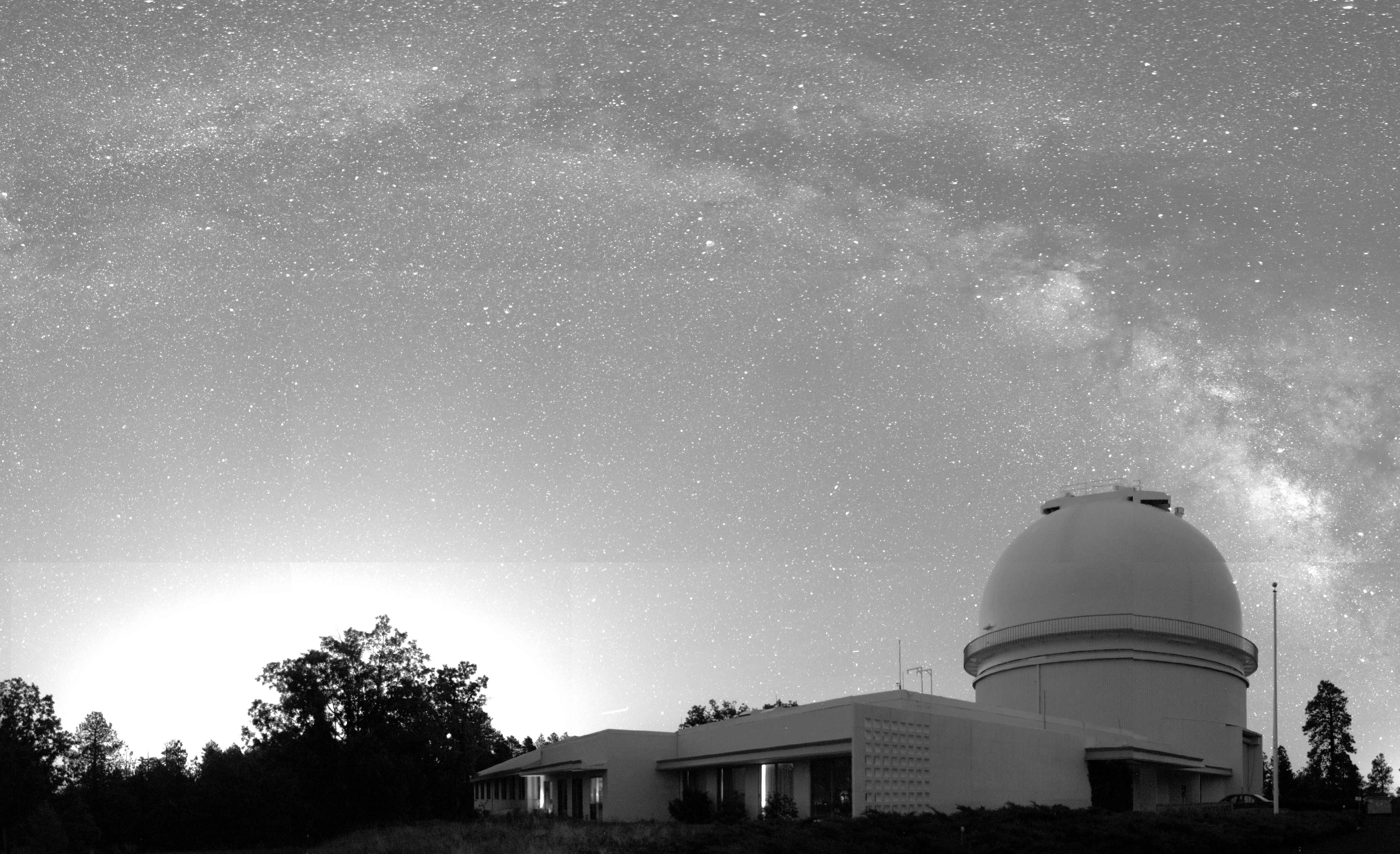 high-resolution panoramic of NOFS in operation west of Flagstaff AZ